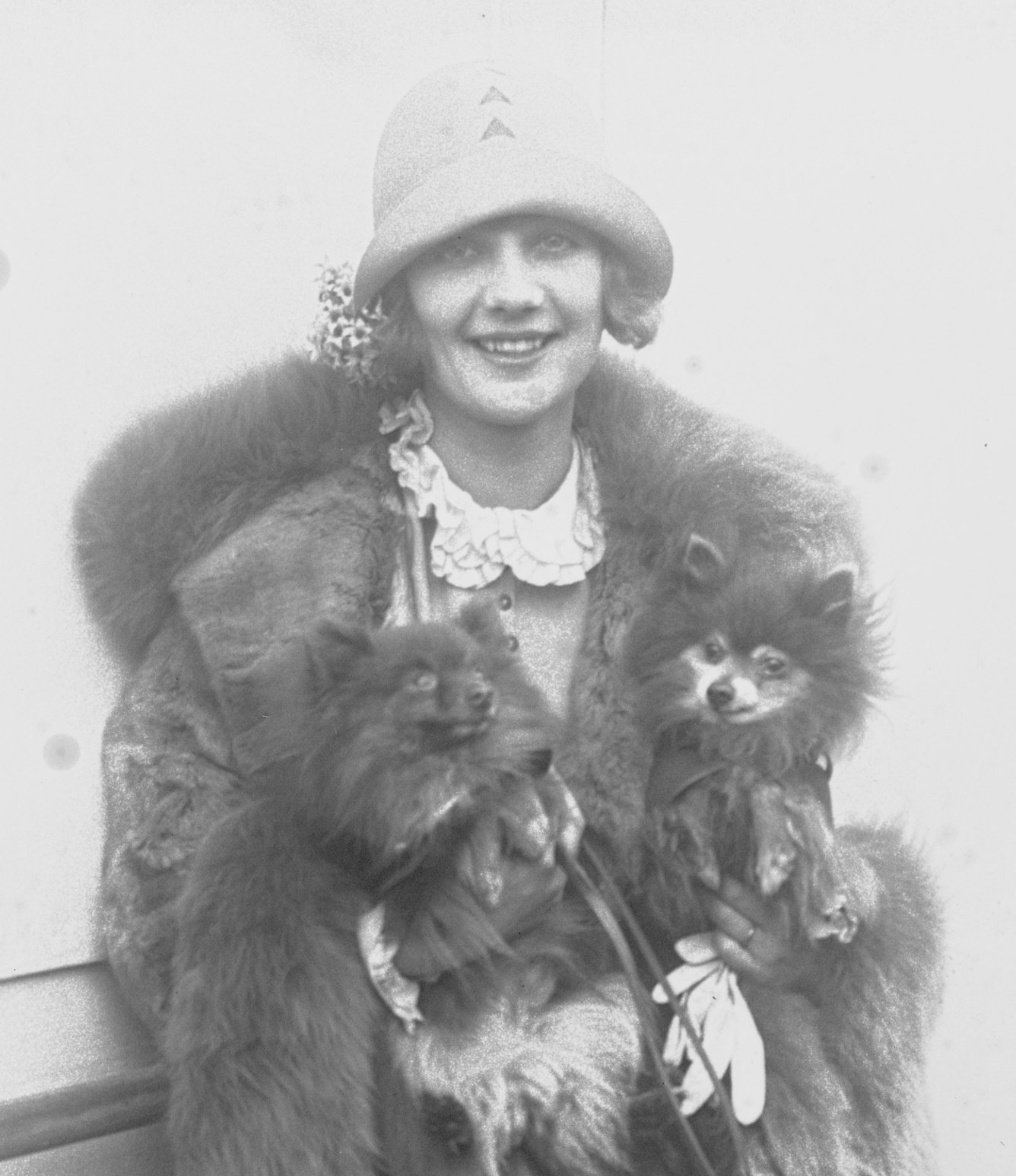 Title: Queenie Thomas Abstract/medium: 1 negative : glass ; 5 x 7 in. or smaller.